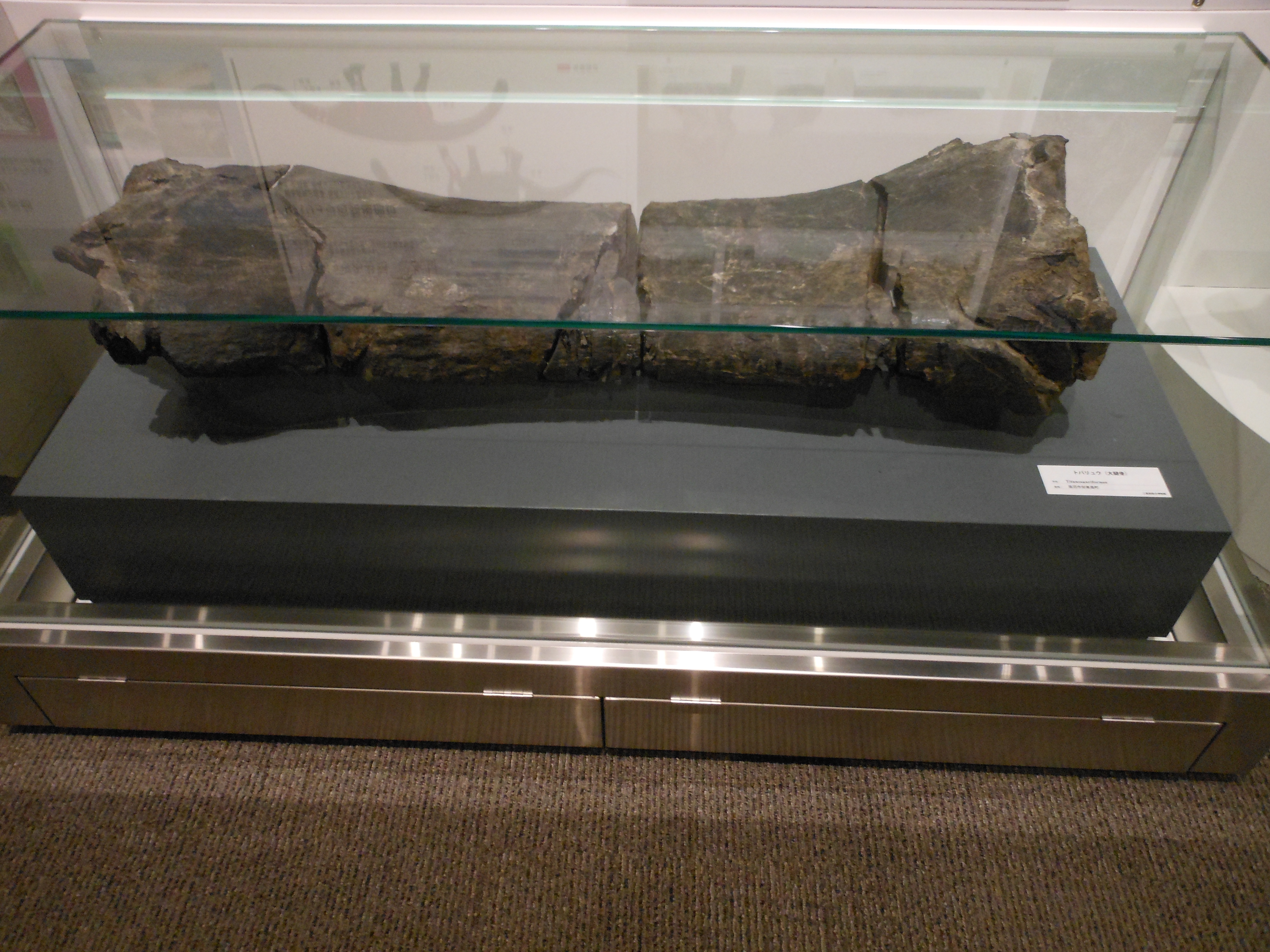 This is a thigh bone fossil of Titanosauroidea Fam., gen. and sp. Indent. Mie prefectural museum owns it.